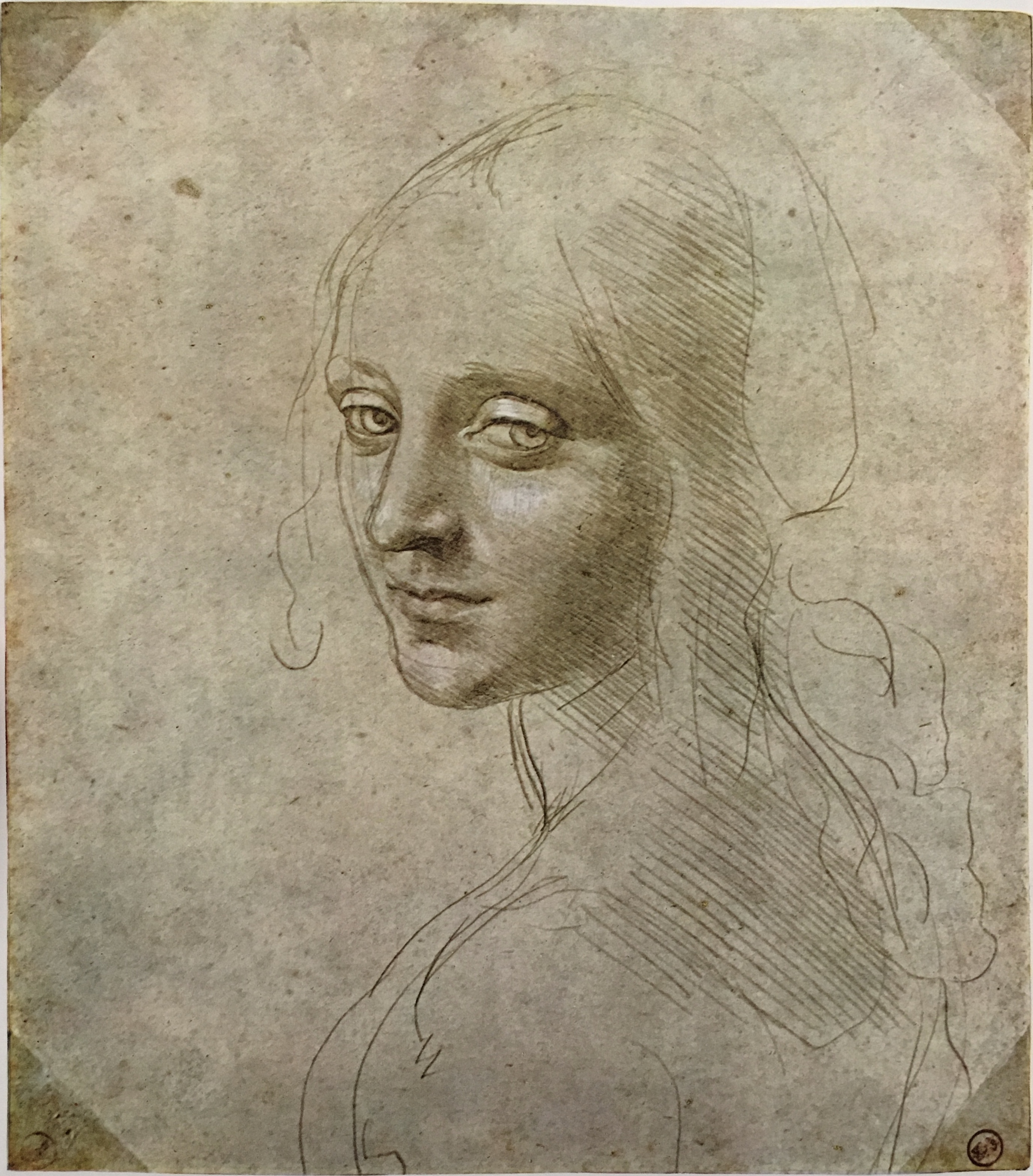 Leonardo da Vinci's study for "Madonna of the Rocks". Turin.